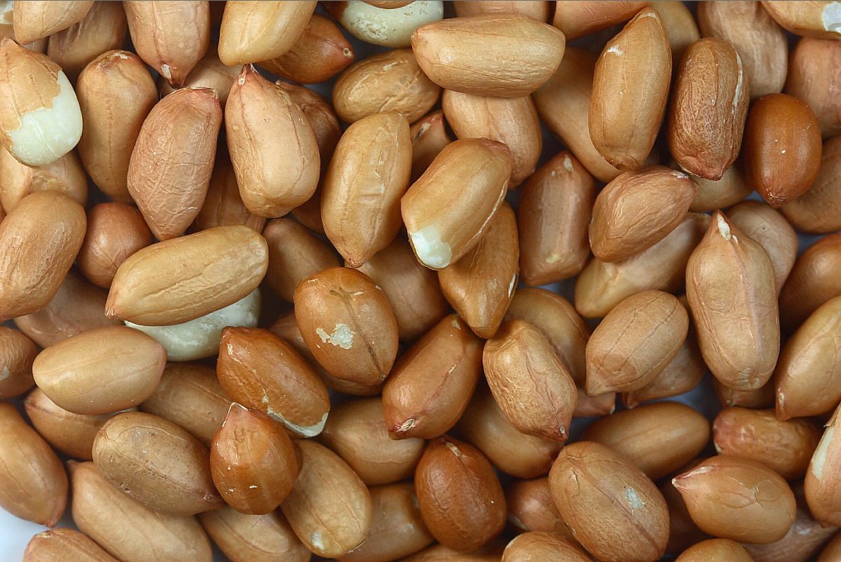 Peanuts with skin